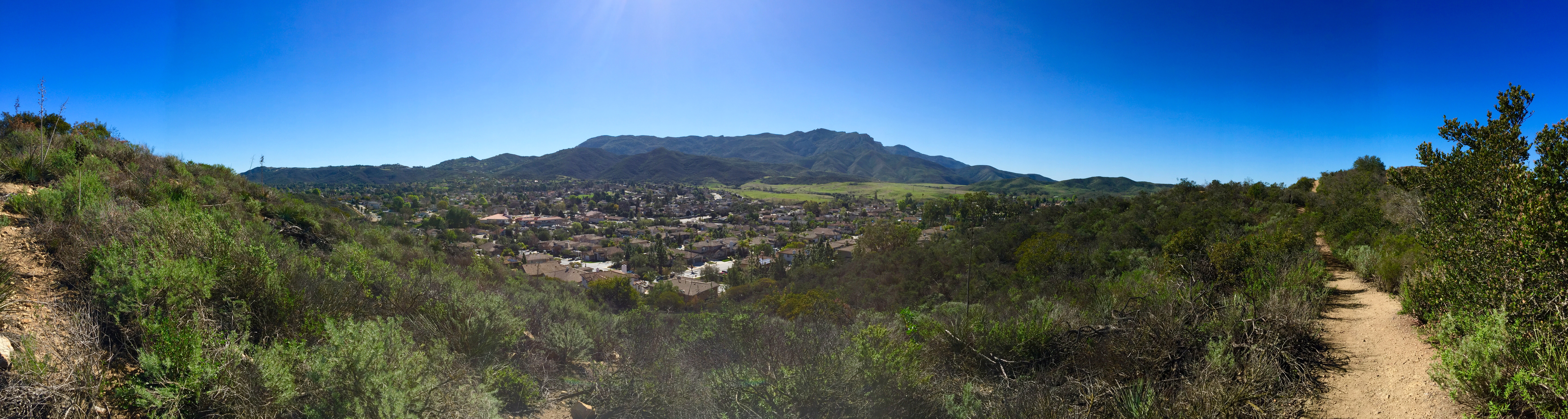 The Santa Monica Mountains as seen from the Potrero Ridge Open Space in Newbury Park, CA.